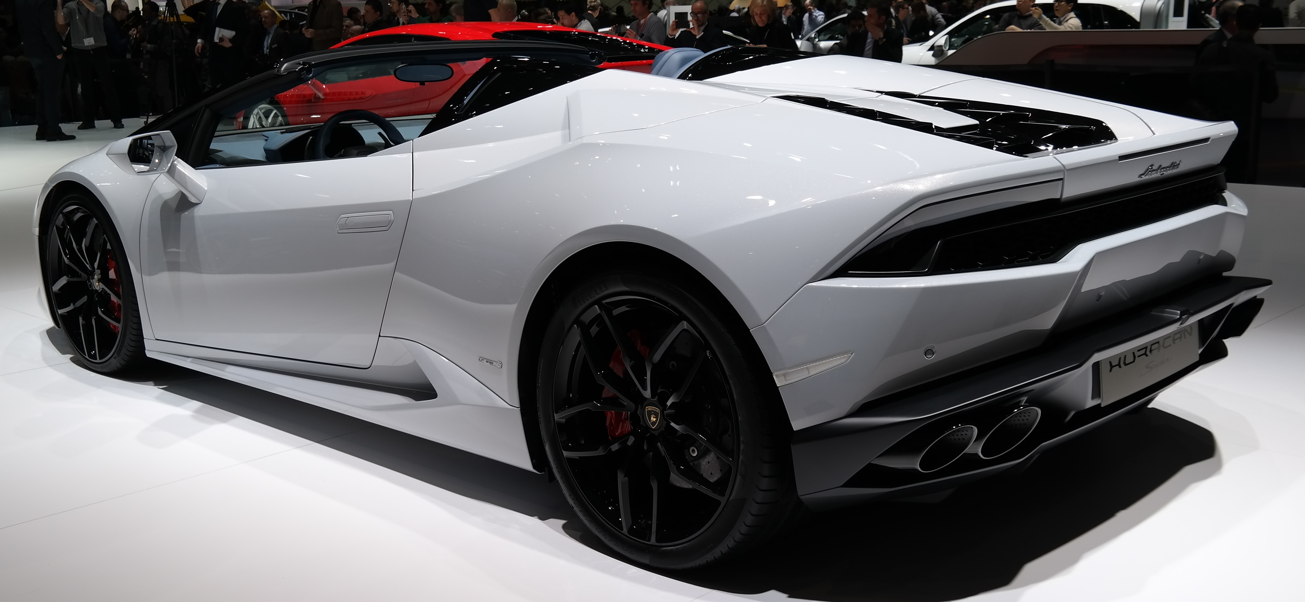 Geneva Motor Show 2016 (photo taken on the first press day)